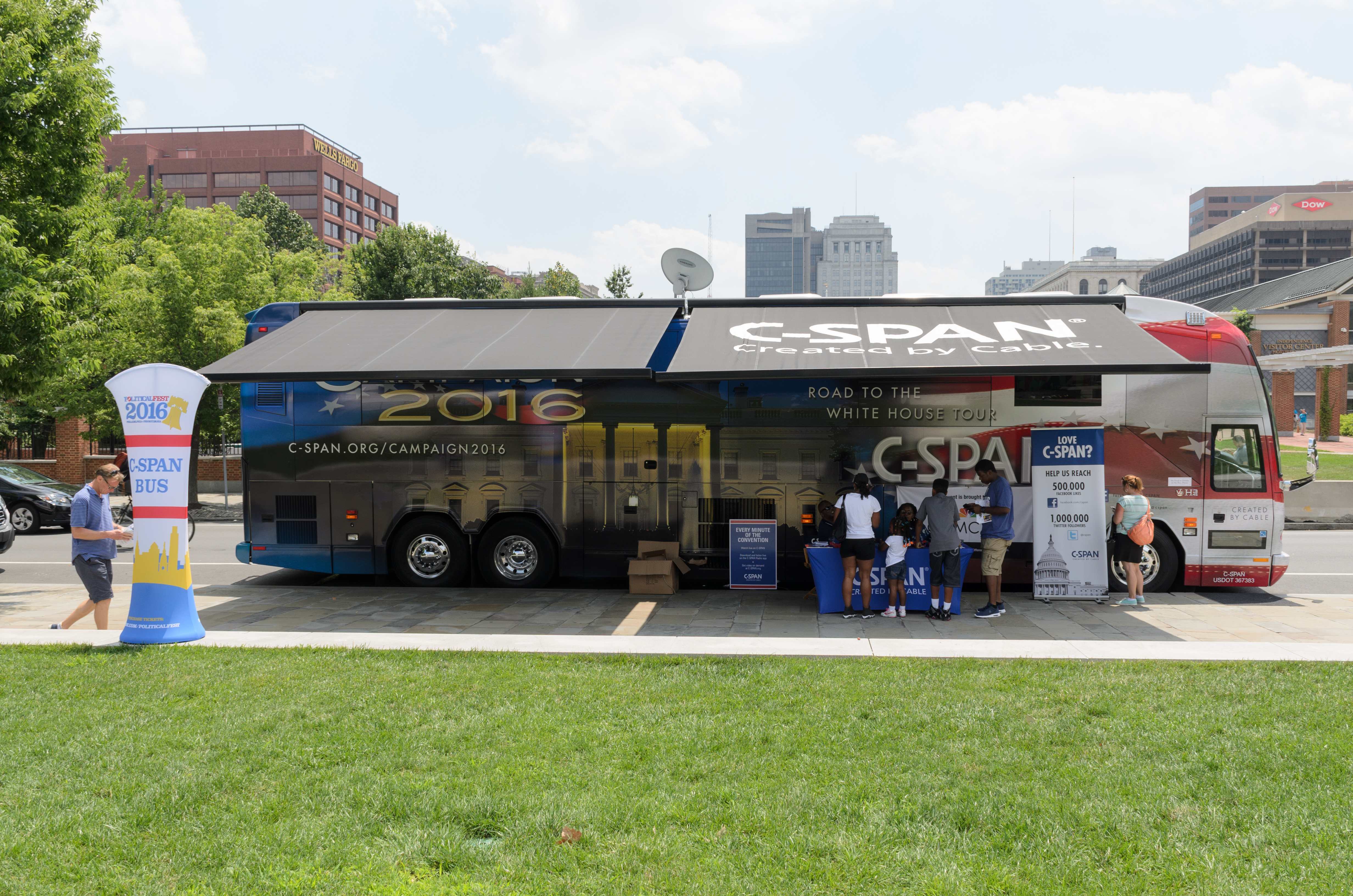 C-SPAN Bus parked in front of the National Constitution Center as part of PoliticalFest, an event celebrating the 2016 Democratic National Convention in Philadelphia.